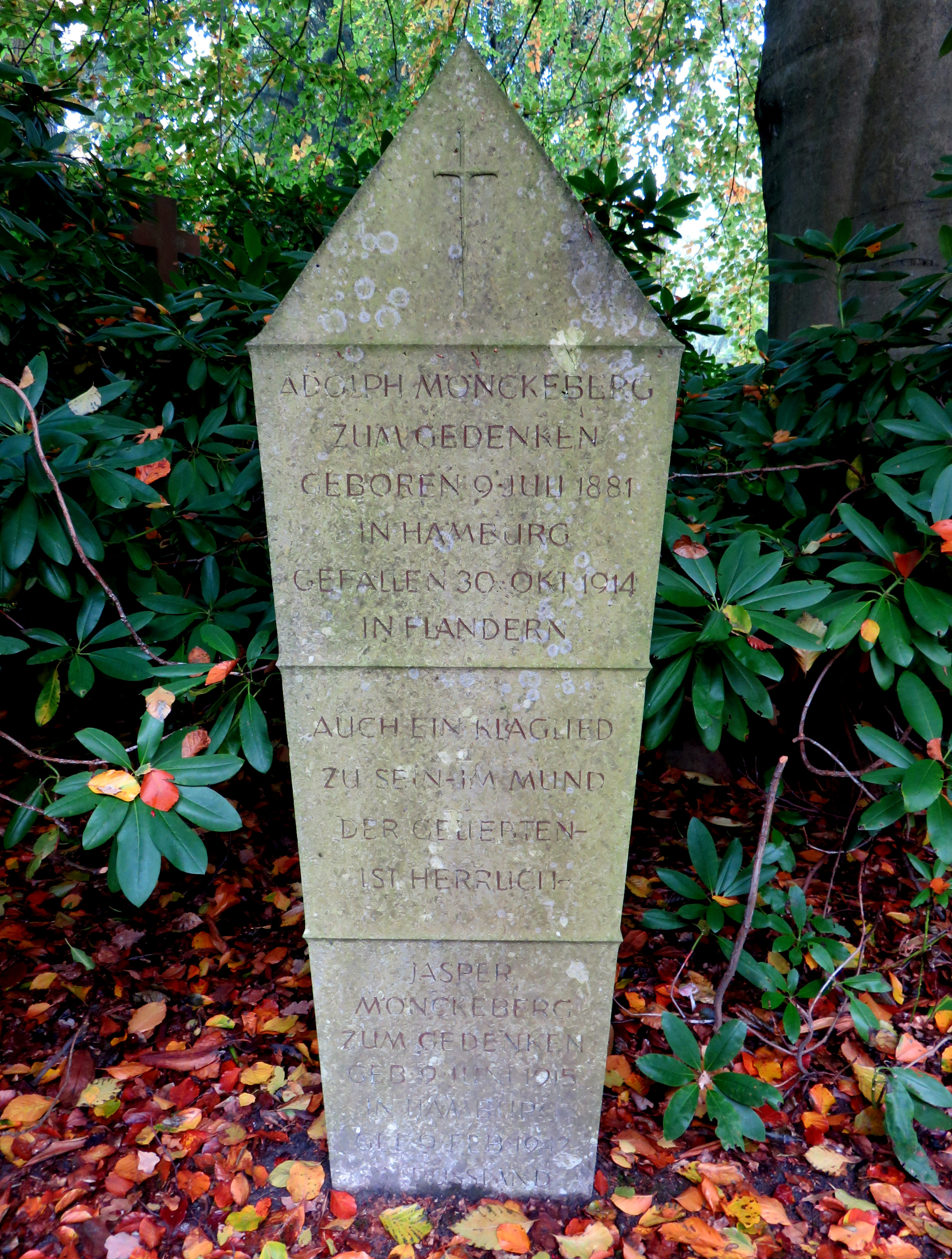 Memory stone for Hamburg lawyer Adolph Mönckeberg (1881-1914), son of Hamburg mayor Johann Georg Mönckeberg, and his own son Jasper Mönckeberg (1915-1942), grave area of Mönckeberg family, Hamburg Cemetery Ohlsdorf, Biography widow Vilmar Mönckeberg-Kollmar Details.